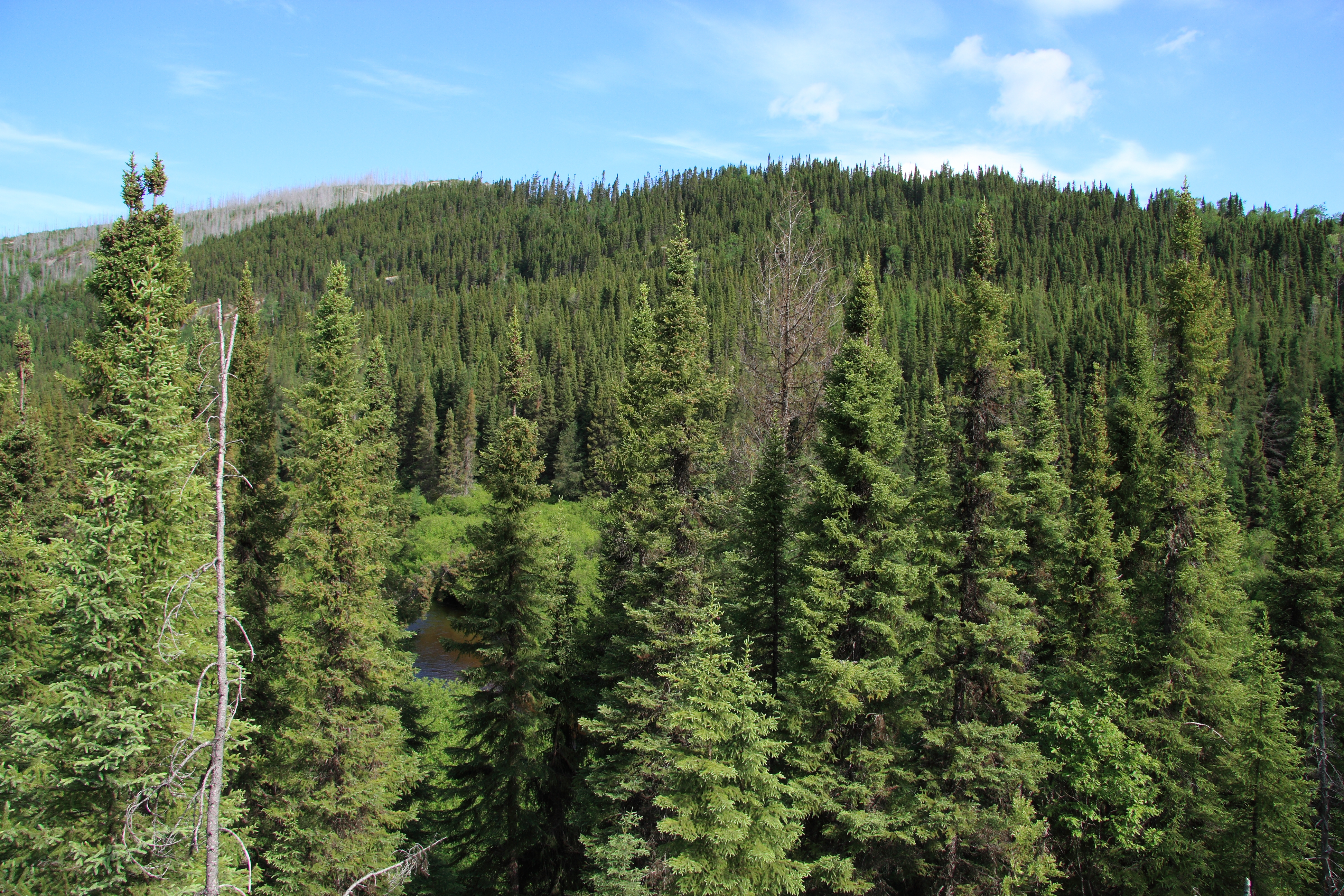 Black Spruce forest, Grands-Jardins National Park, Quebec, Canada.